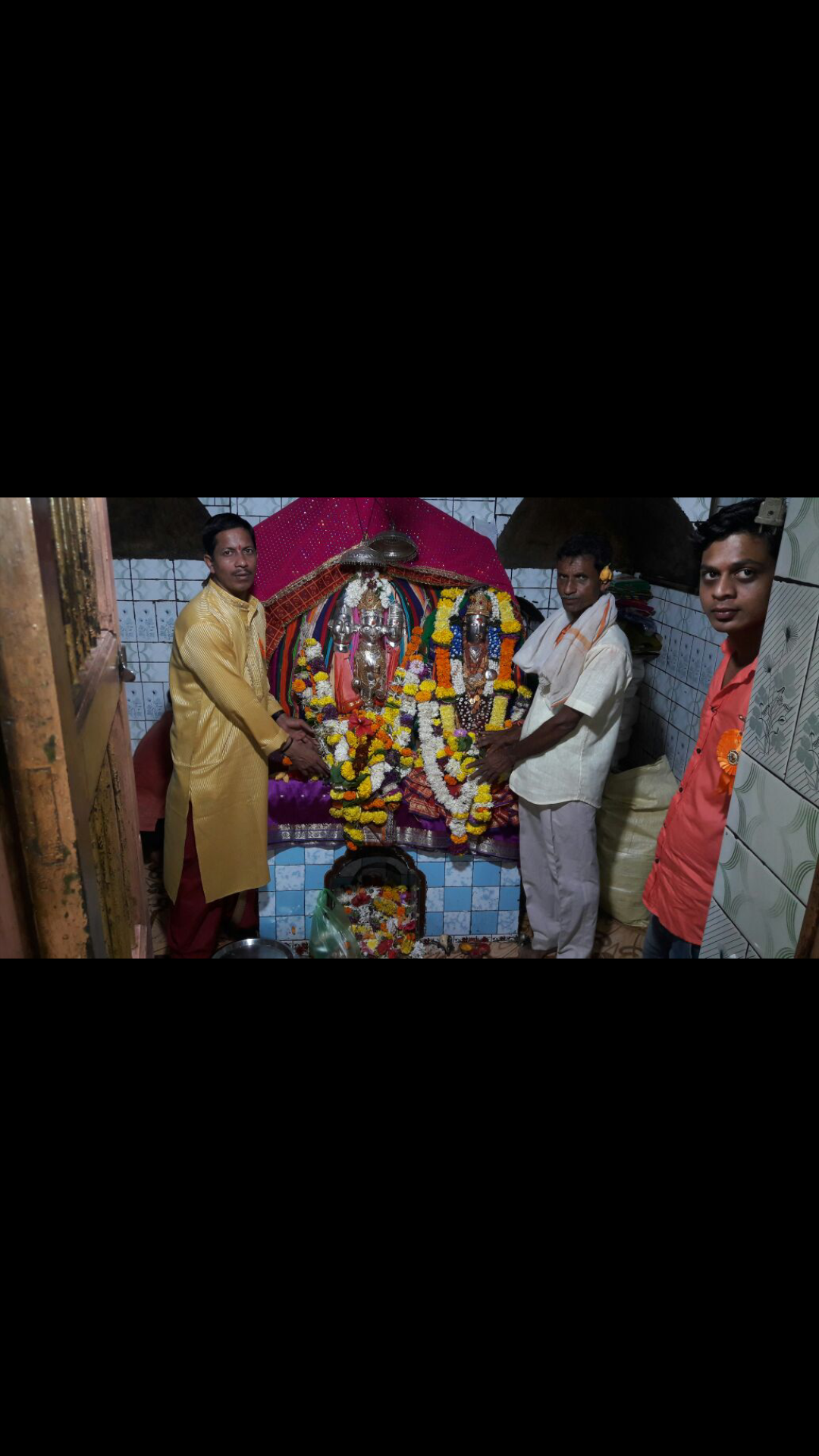 Aryadurga devi